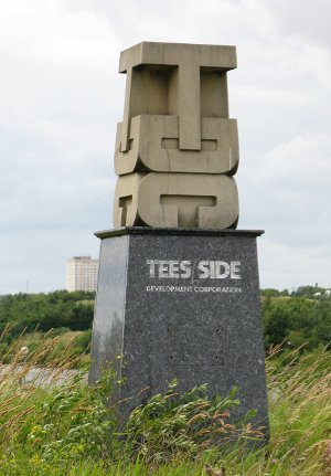 This icon/statue is used to identify the work of the (defunct) Teesside Development Corporation. This image is taken at the Tees Barrage.